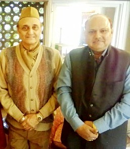 Indian politician, eminent Intellectual & former Member, National Advisory Committee,Ministry of External Affairs(MEA),India Dr. Lakshmi Narayan Singh with renowned Indian statesman-scholar Dr Karan Singh(first Governor of J & K,former Union Cabinet Minister)President ICCR & Chairman AICC Foreign Affairs at his home